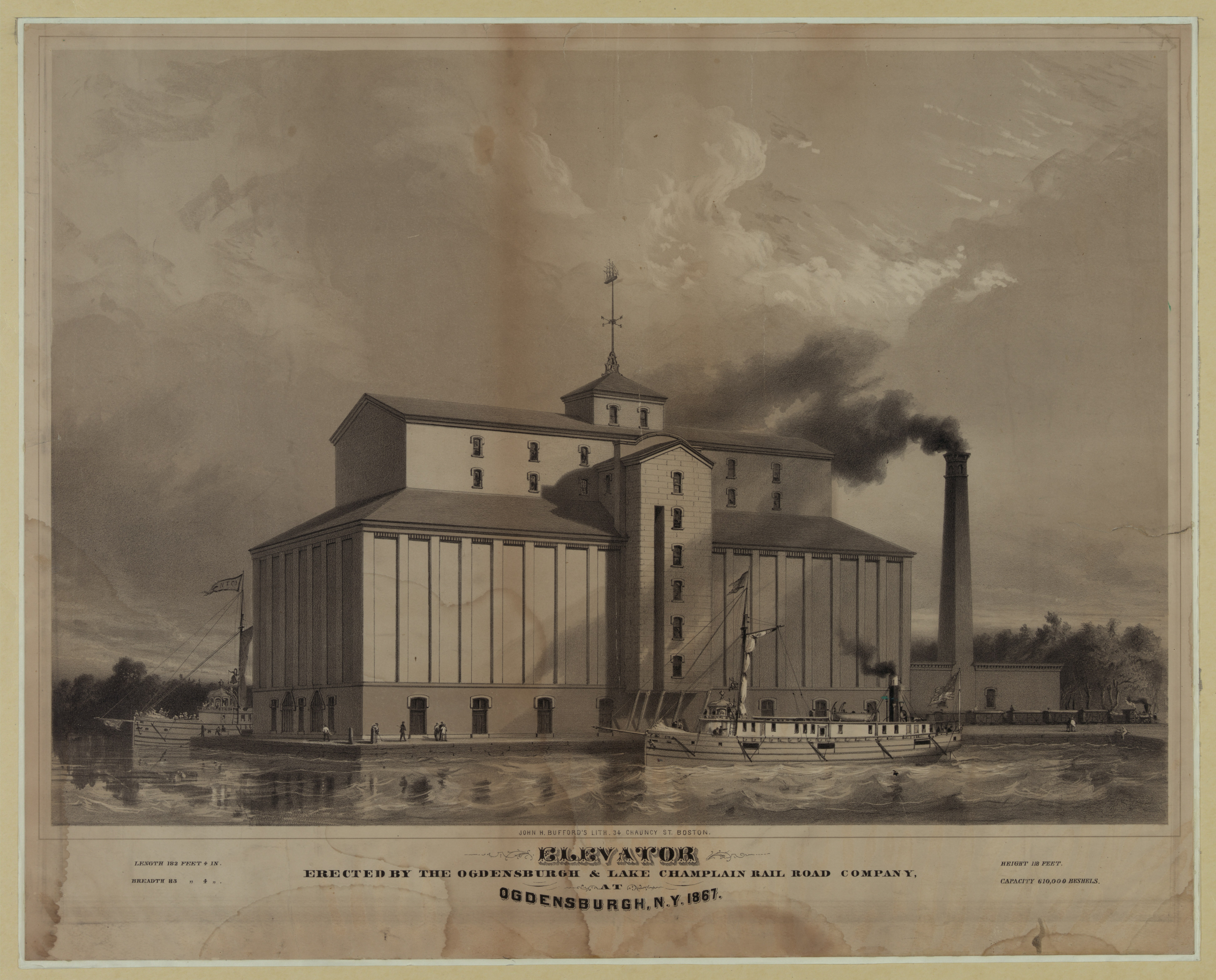 Title: Elevator erected by the Ogdensburgh & Lake Champlain Rail Road Company at Ogdenburgh, N.Y. 1867 Physical description: 1 print. Notes: This record contains unverified data from PGA shelflist card.; Associated name on shelflist card: Bufford.